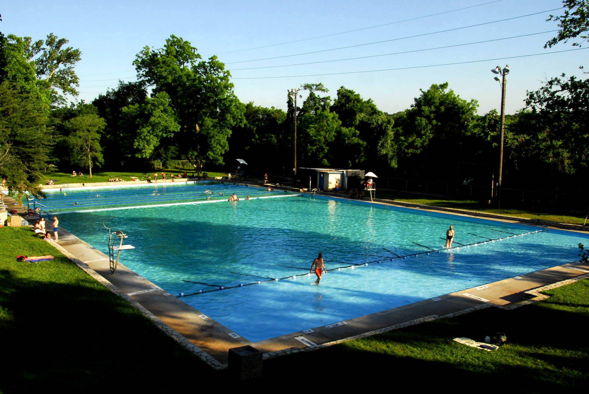 Deep Eddy Pool located at 30.2765° -97.7732°,Austin, Texas, United States. The structure was added to the National Register of Historic Places in 2003.